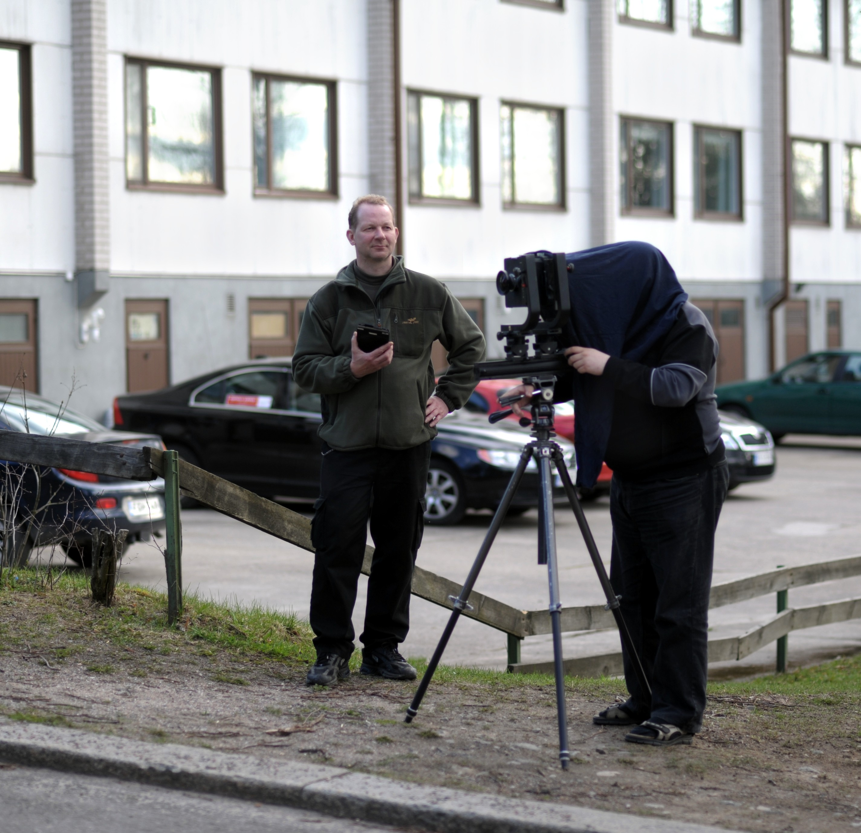 Linhof Kardan-GTL in Lauritsala, Finland